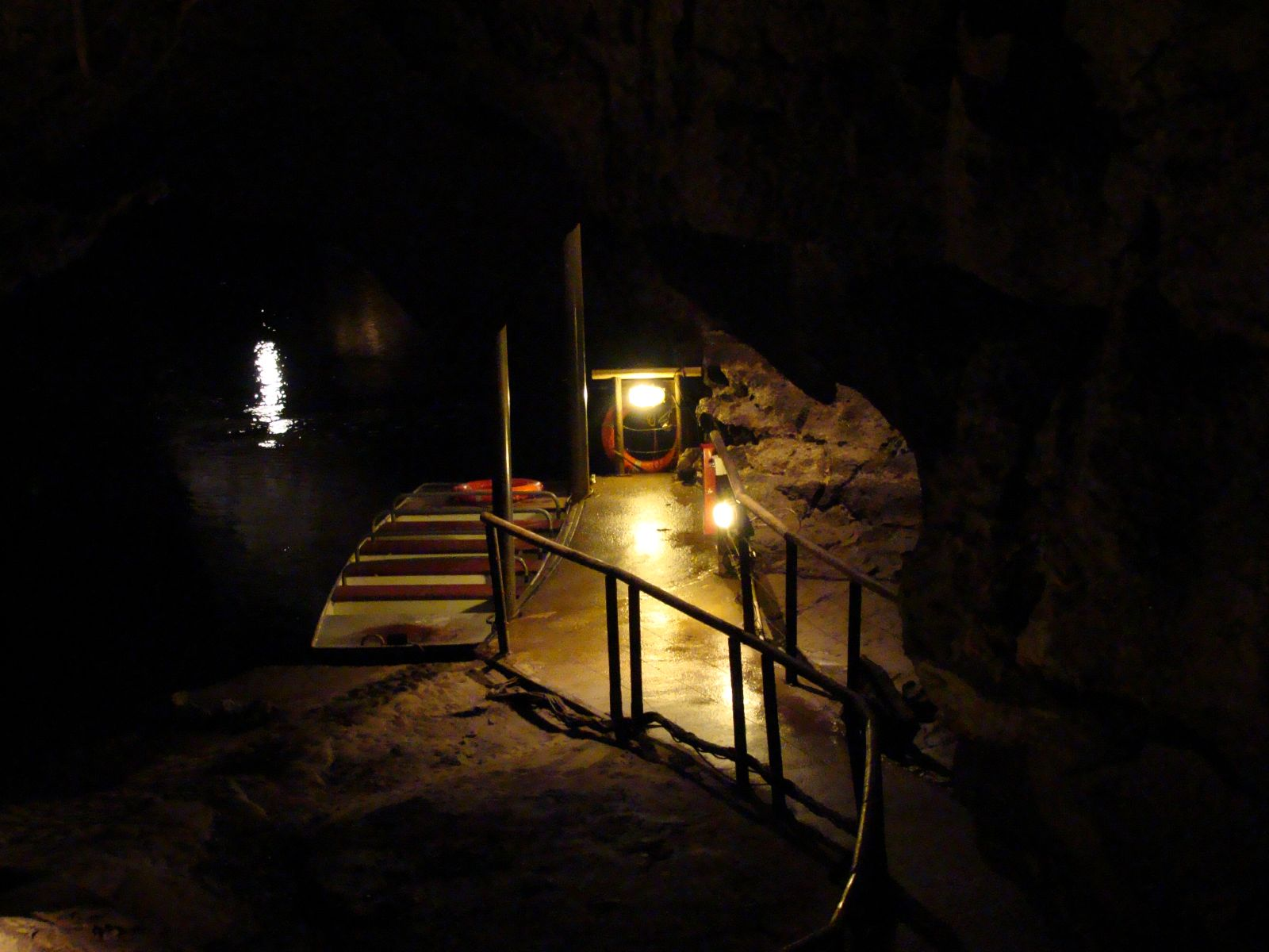 Marble Arch Caves 14